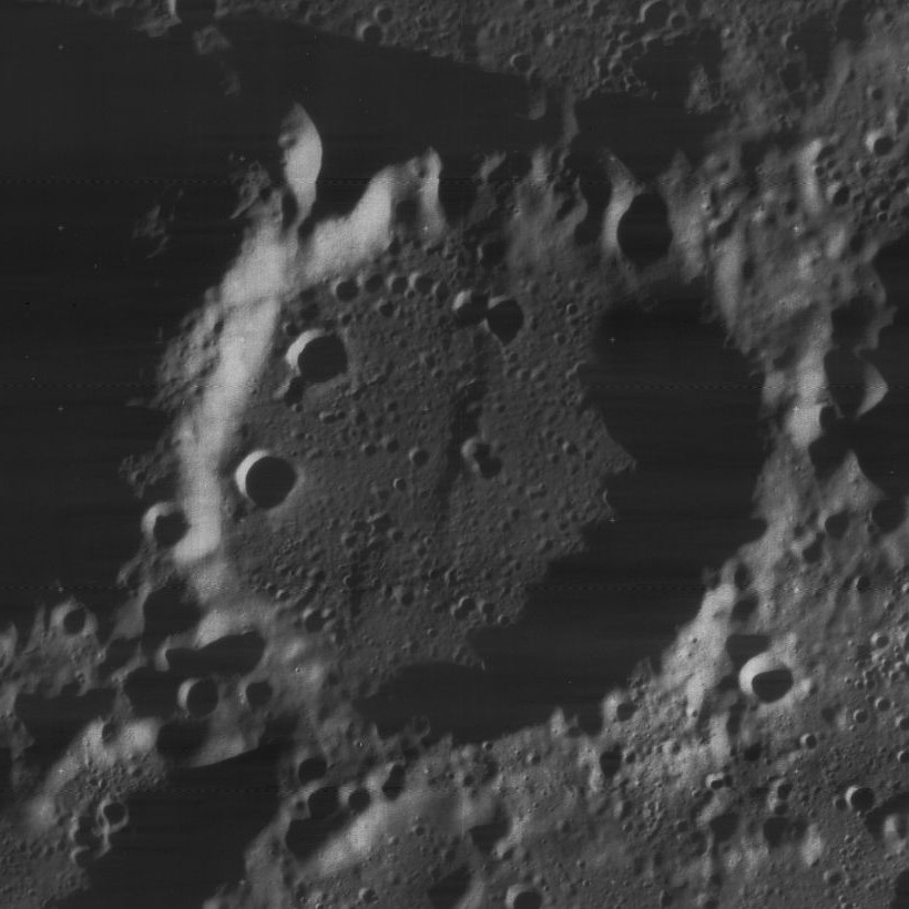 Gioja, near the north pole of the moon.